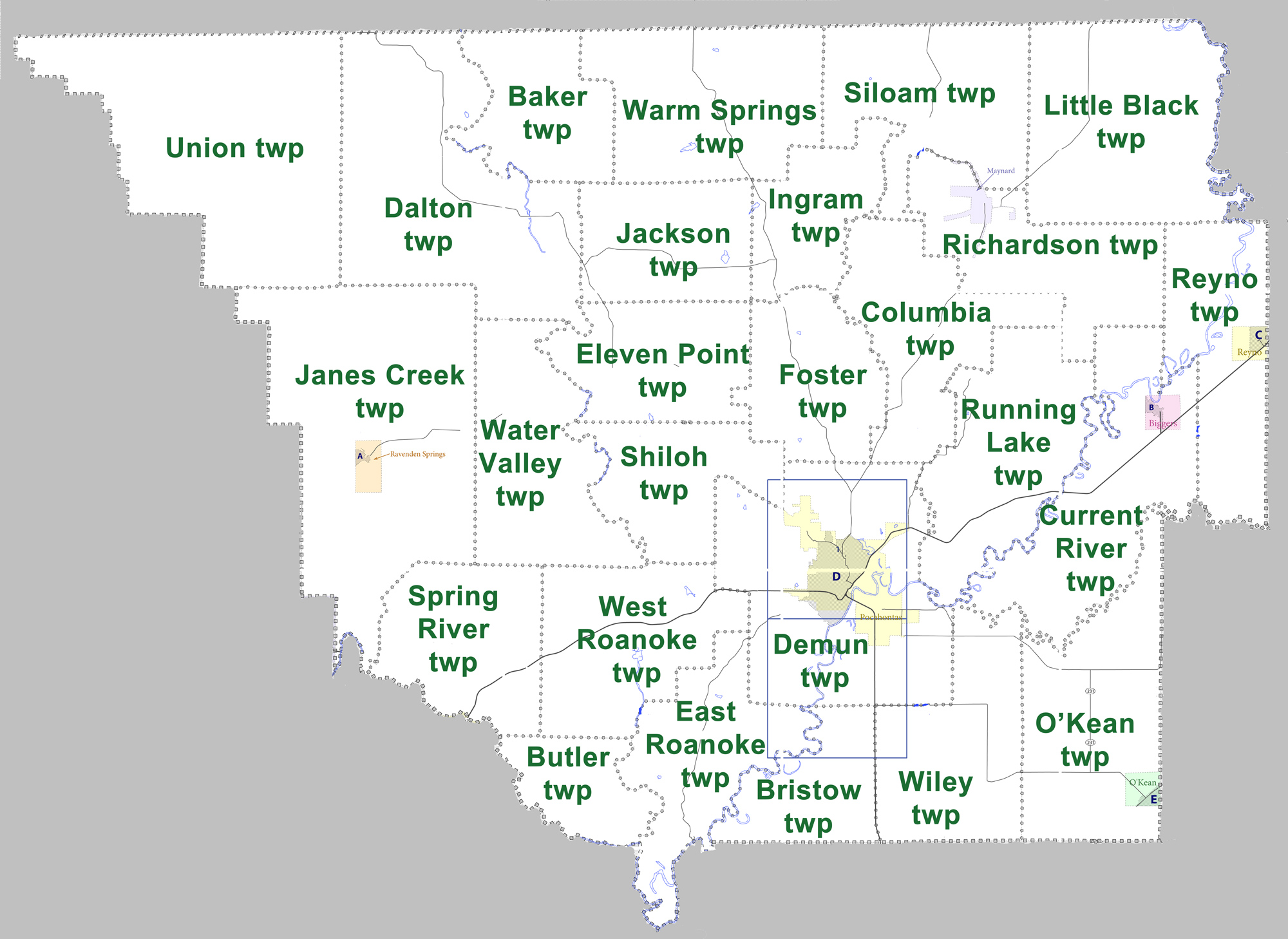 Large map showing townships in Randolph County, Arkansas. Modified from US census map (for 2010 census) for Randolph County, Arkansas